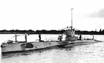 Description: USS R-12 (SS-89) Source: Website of Commander Submarine Force, U.S. Pacific Fleet[1]